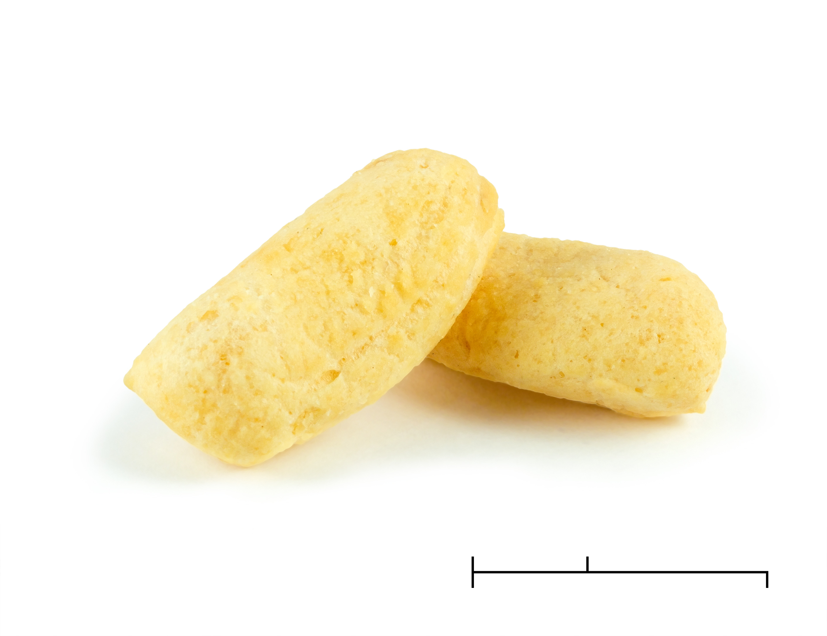 Amplang from Kotabaru, South Kalimantan 2015-05-23. Focus stack of six images. Scale shows 1cm at the top and 1 inch at the bottom.